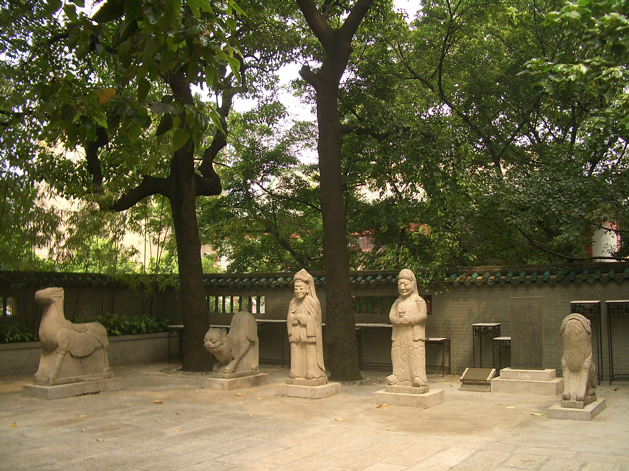 Temple of the Five Immortals (Wu Xian Guan) in Guangzhou: various statuary, some quite feline in appearance.